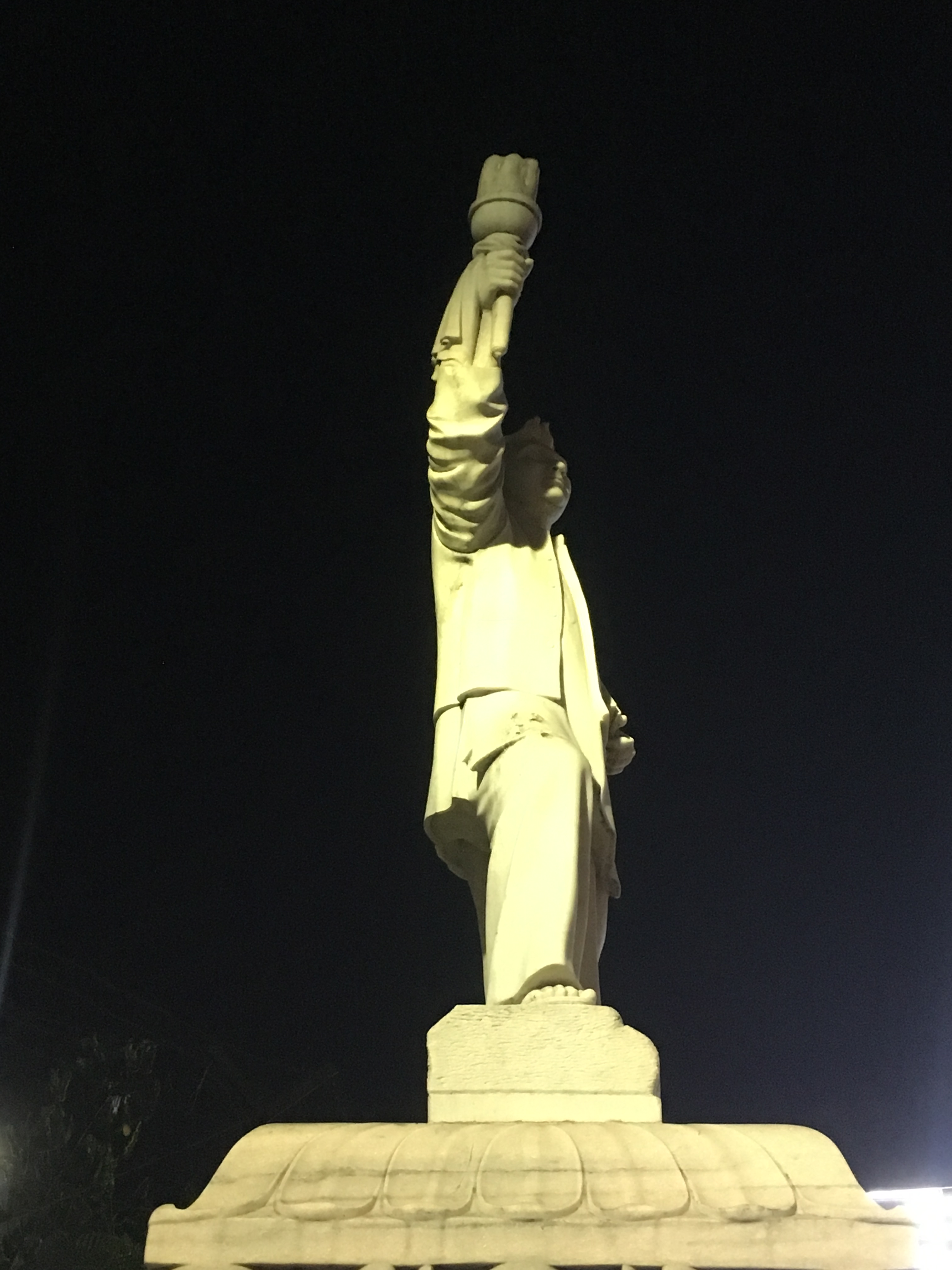 Mahagujarat Memorial at Old Congress Bhawan, Ahmedabad